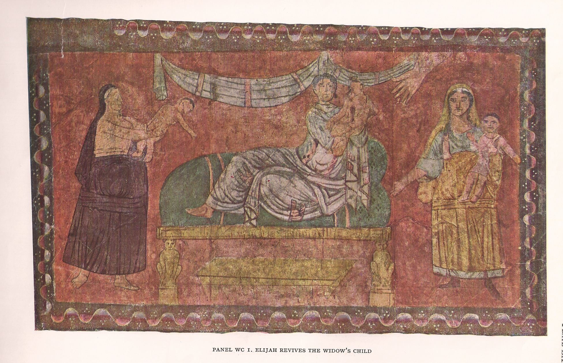 Dura Europos synagogue wall painting